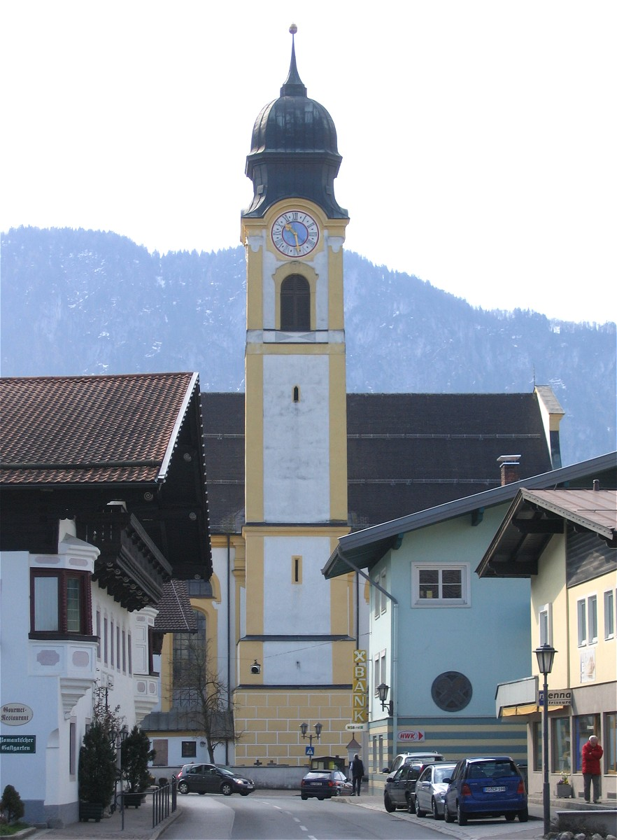 Ebbs, bell tower of the Parish Church of the Assumption as seen from Wildbichler Bundesstraße.